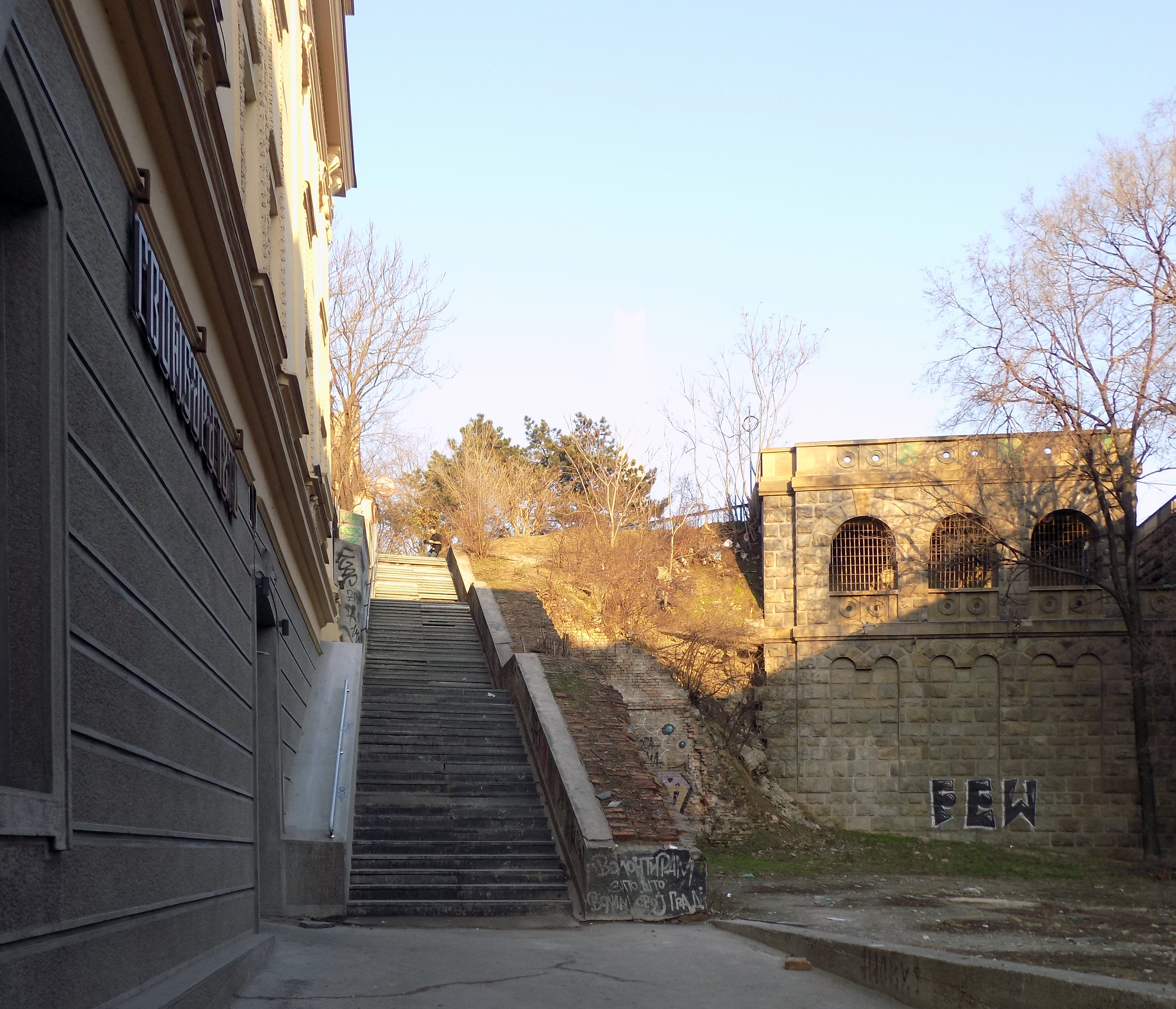 Small stairs connect Karađorđeva Street with district around Kosančić Venac Street